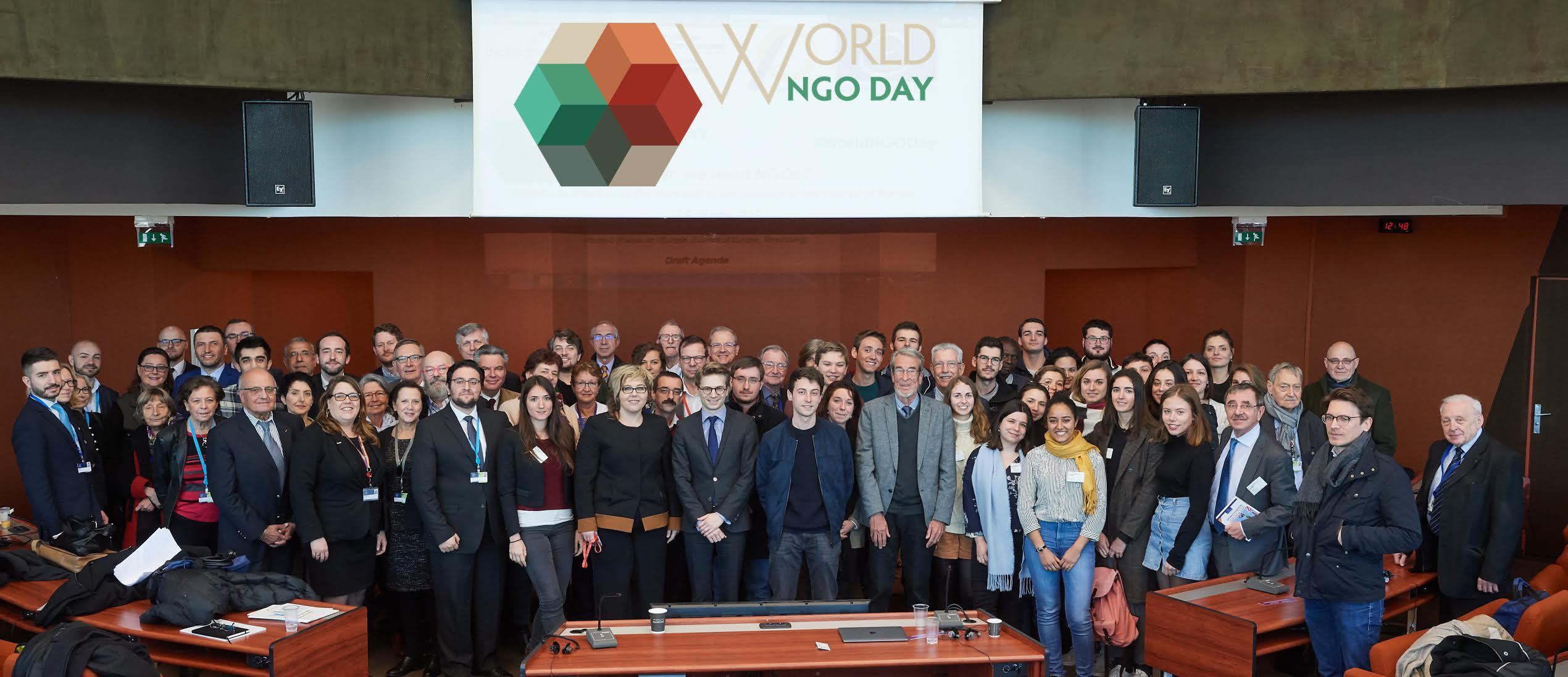 The Council of Europe is celebrating World NGO Day on 27th February 2019 in Strasbourg, in the centre - Mr Marcis Liors Skadmanis, the founder of World NGO Day, Anna Rurka, President of the Conference of INGOs, Council of Europe